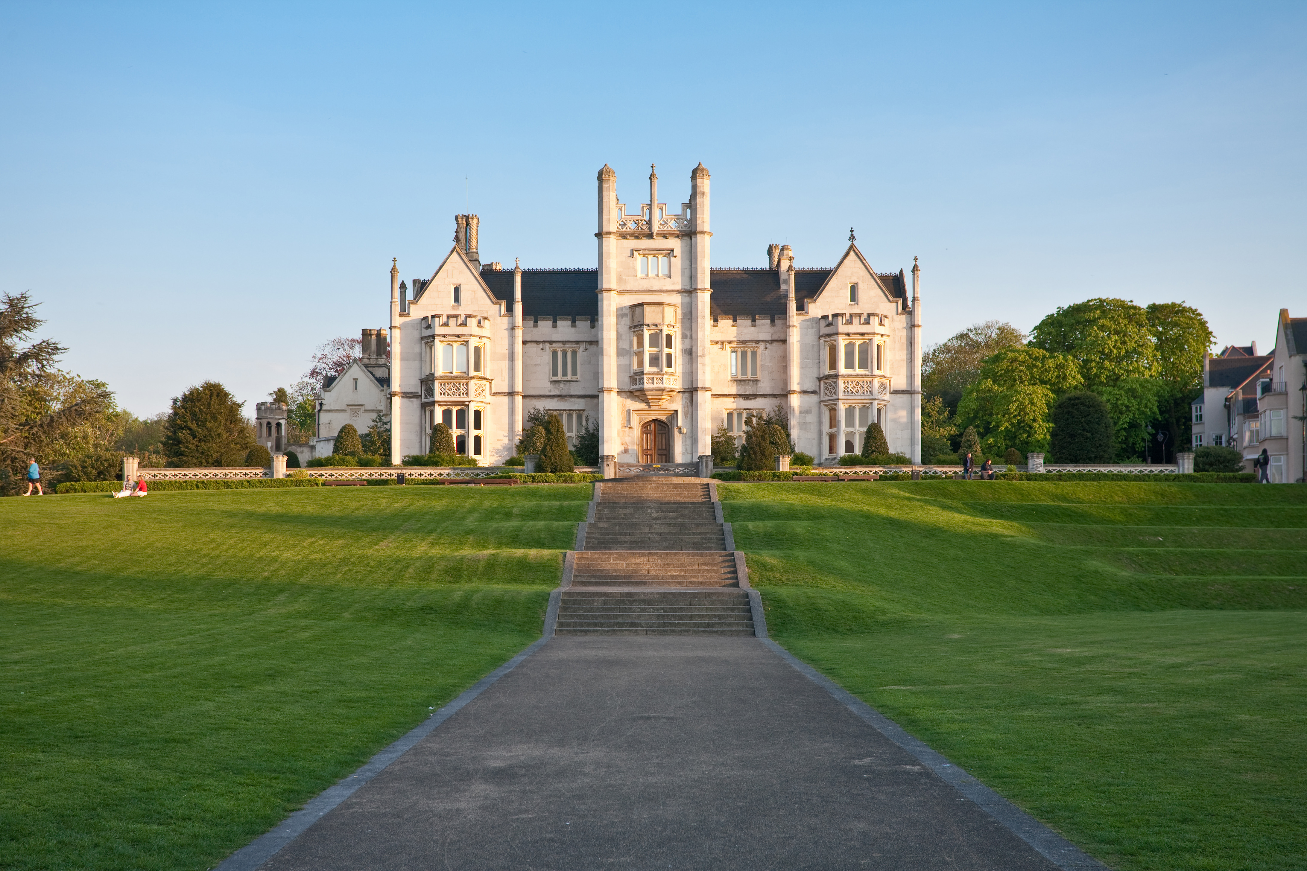 Ingress Abbey, the focal point of the Ingress Park development in Greenhithe, Kent, England.